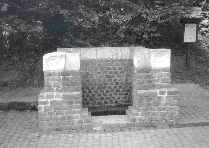 Bassin (fountain chamber) of Eifel aqueduct.